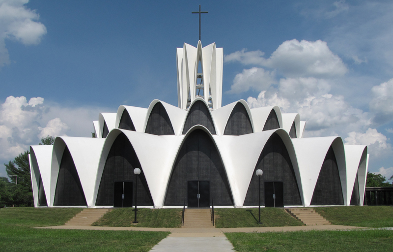 Exterior photo of Priory Chapel at Saint Louis Abbey in Creve Coeur, Missouri